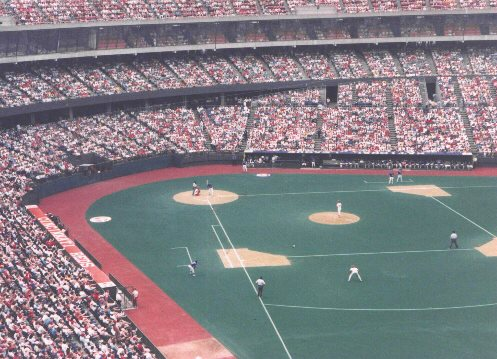 Photo taken. May 1988. 18:23, 5 October 2006 . . Flibirigit . . 497×359 (62 KB)